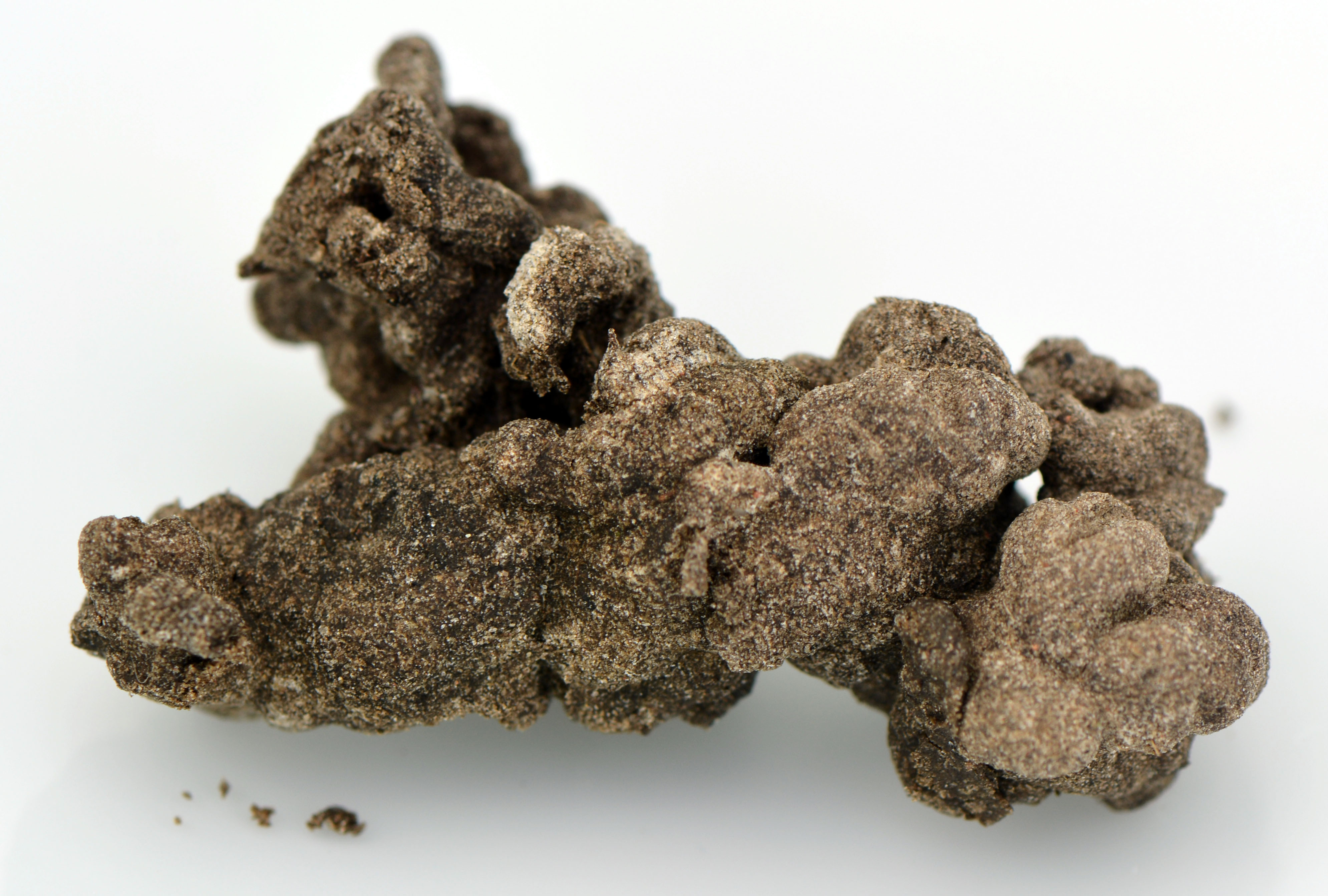 Earthworm feces (near Lille, Northern France)